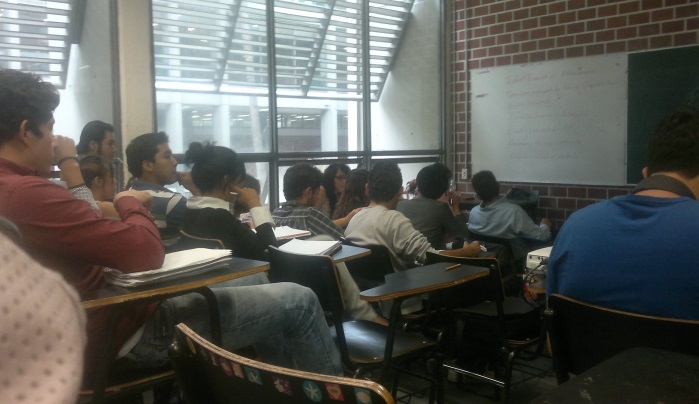 como desventaje se presenta la inasistencia a clases